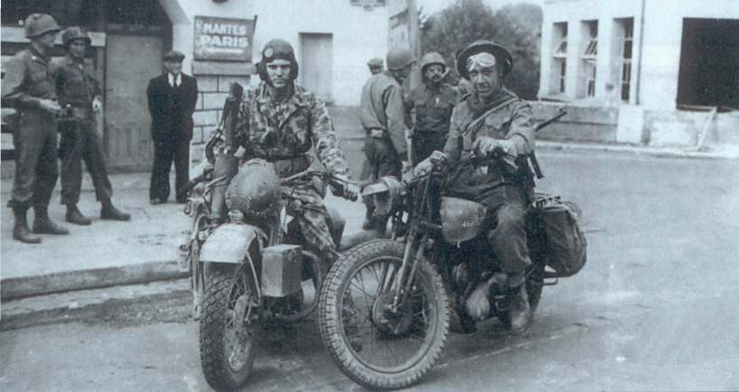 Cpl. Gordon C. Powell of the 82nd Armored Reconnaissance Battalion in Pacy-Sur-Eure, France, as American and British troops meet on August 27th, 1944. U.S. Army officers discuss the situation on the pavement while Cpl. Powell poses next to British XXX Corps Dispatch Rider Baltins Dogoughs. Dogoughs rides a Norton 16H with missing front fender and has picked up a German MP40 submachine gun along the way. He wears standard infantry trousers, shoes and helmet instead of the special motorcyclist's gear. Powell's riding a Type IV or early Type V 42WLA, evidenced by the low ammo box and first pattern front fender. A M1903 Springfield rifle is carried in a leather scabbard on the front forks. Ammo for this rifle is held in a M1923 Cartridge Belt. A standard M1 helmet is slung over the headlight. A Mounted Canteen Cover along with other equipment, possibly a M-238 Flag Set, is carried on the rifle scabbard. Powell's uniform consists of the 2-piece camouflaged HBT suit worn for a short period in France by units of the 2nd Armored Division and unidentified headgear and goggles. Markings on the front fender are three colored invasion bars above 2/\-82R HQ87, which would indicate 87th vehicle of HQ Company, 82nd Reconnaissance Bn of the 2nd Armored Division. A star is painted to the front of the gas tank. Photo taken by U.S. Army WLAs in Wartime Photos and Publications.